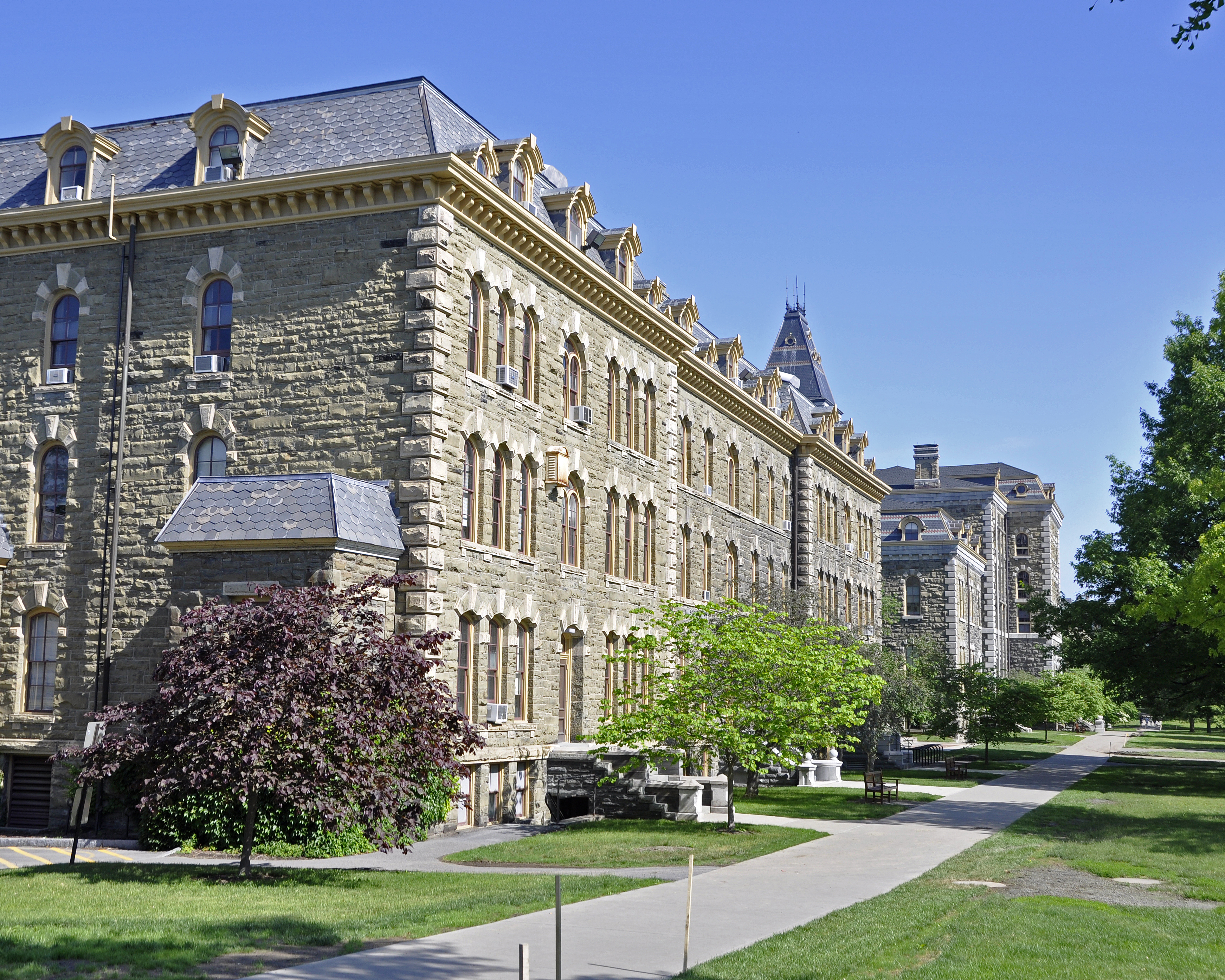 Morrill Hall, Cornell University, Ithaca, New York